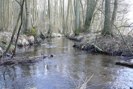 Barnstedter Bach